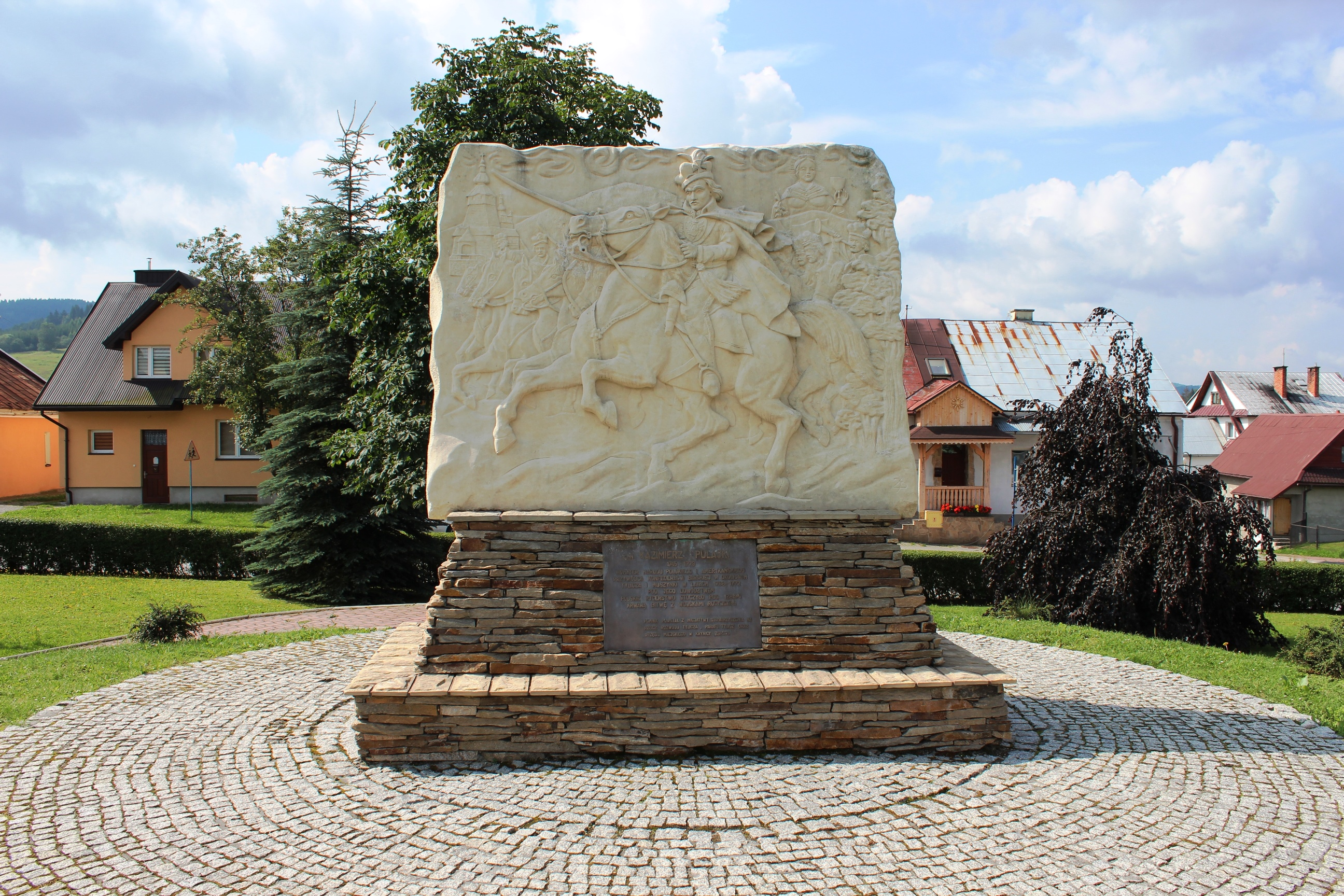 Kazimierz Pułaski monument in Tylicz